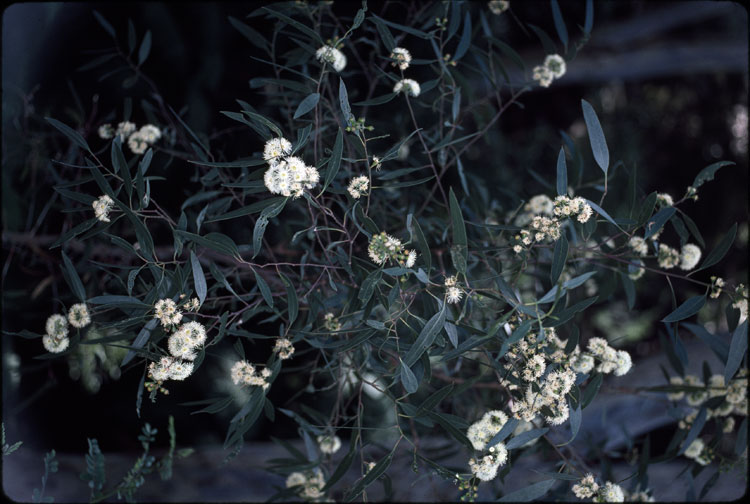 Foliage and flowers of Eucalyptus barberi in the Australian National Botanic Gardens